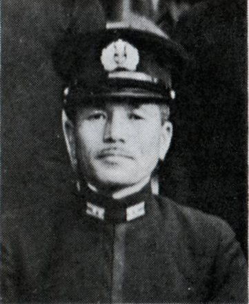 Yamada Takashi is an Imperial Japanese Navy Rear Admiral